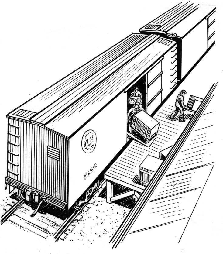 line art drawing